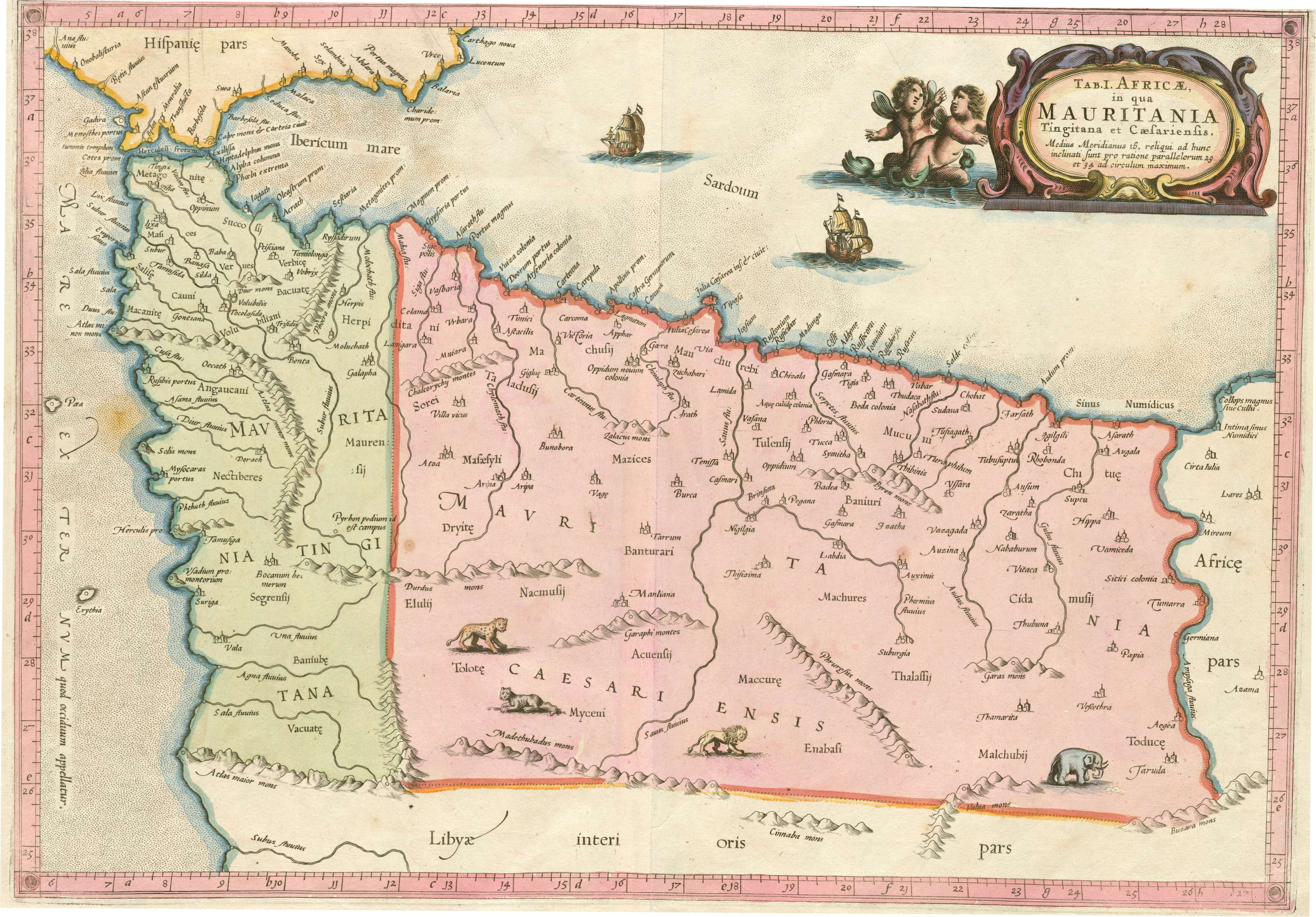 Ptolemy's First Map of Africa, with Mauretania Tingitana and Caesariensis, covering modern Morocco and western Algeria.